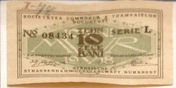 Tram ticket from the Communal Tram Society, Bucharest, 1913 - 1916